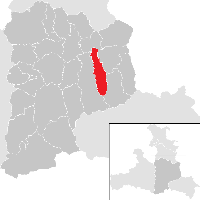 District Sankt Johann im Pongau